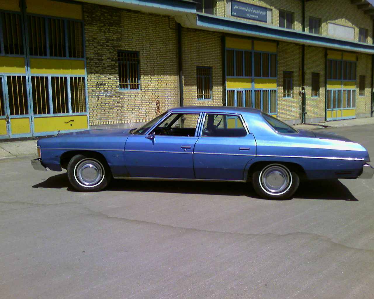 This is a picture of a vehicle (name of it is on the file name).